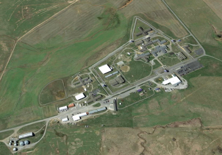 This is an overhead view of the Western Kentucky Correctional Complex. You can use this image, but